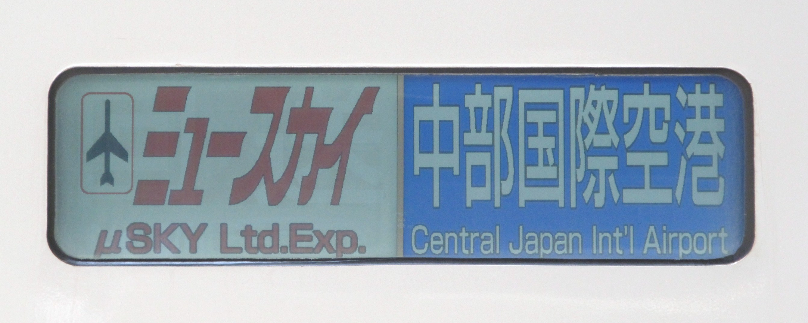 Rollsign of Nagoya Railroad Series 2000. μSky Limited Express bound for Central Japan International Airport.